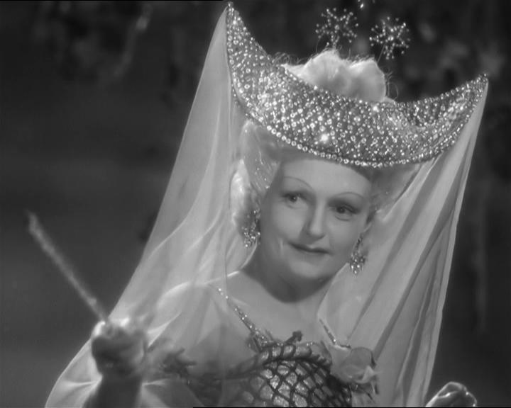 Varvara Miasnikova as Fairy in Cinderella (1947)